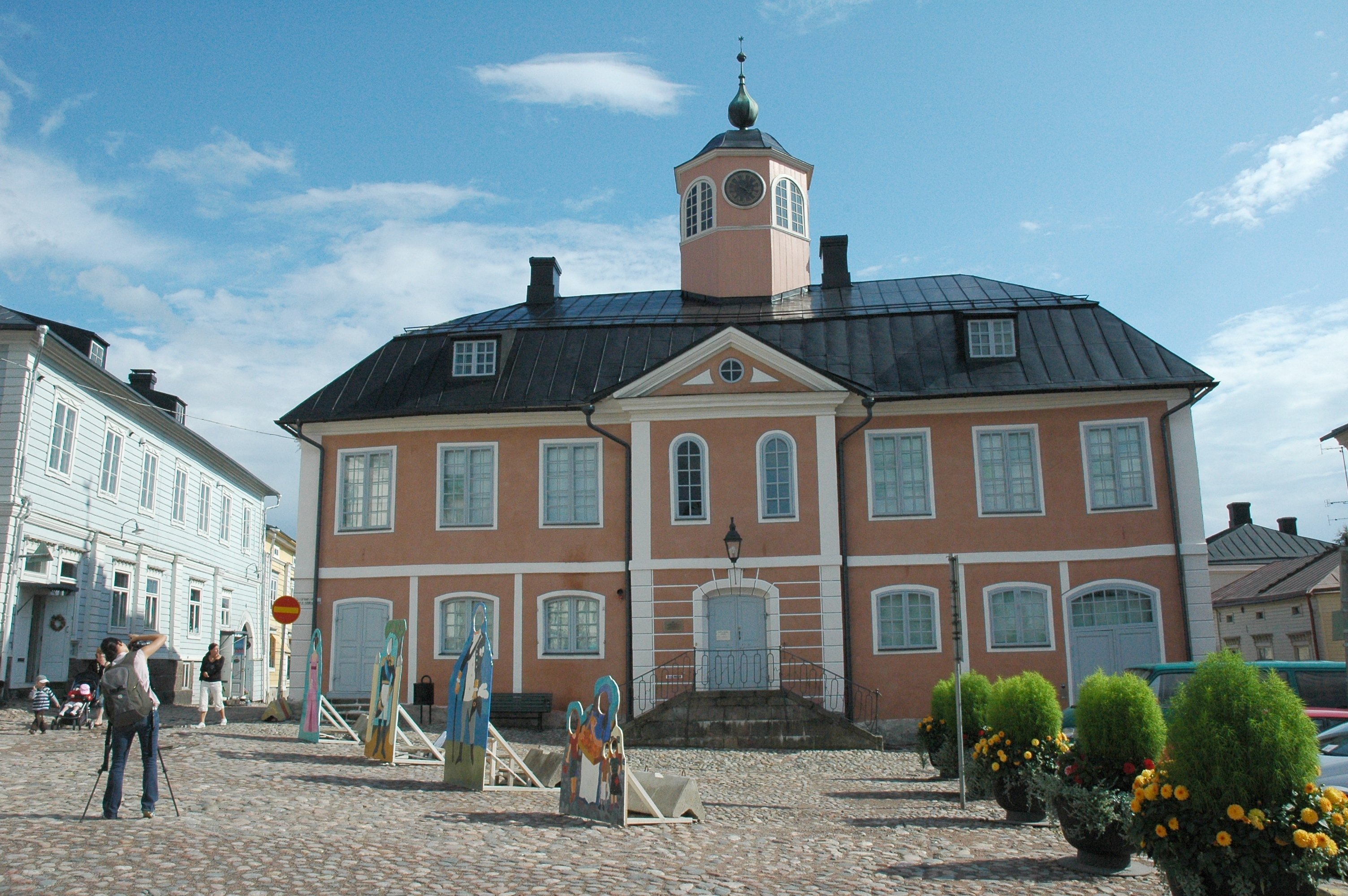 Porvoo Museum (former town hall), Porvoo.